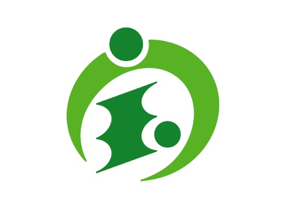 Flag of Kiho Mie.JPG